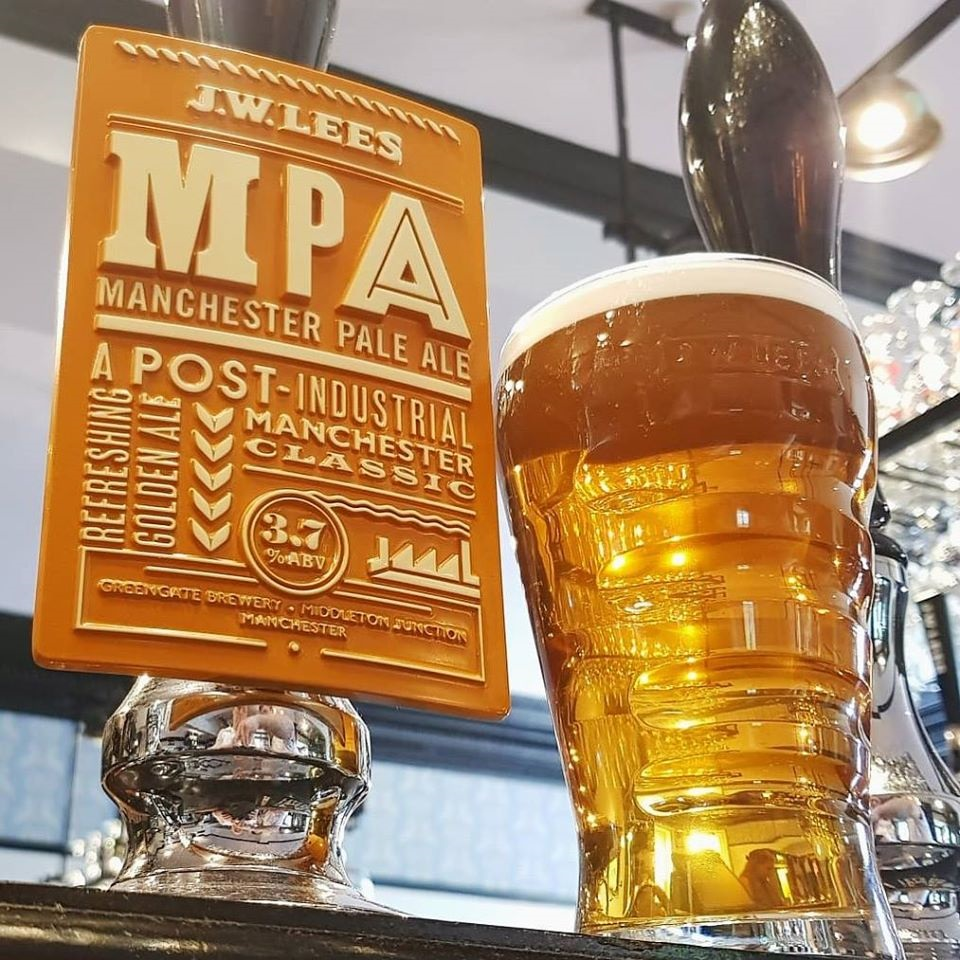 Pint of Manchester Pale Ale next to pump clip